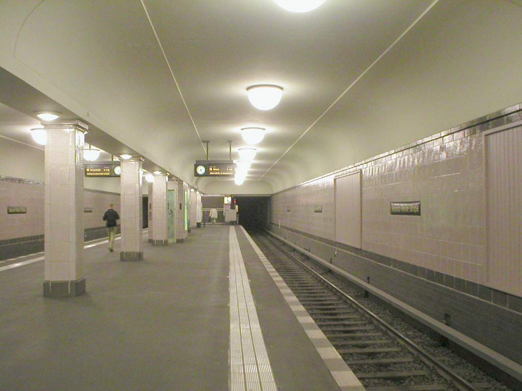 Berlin's U-Bahn station Heinrich-Heine-Straße